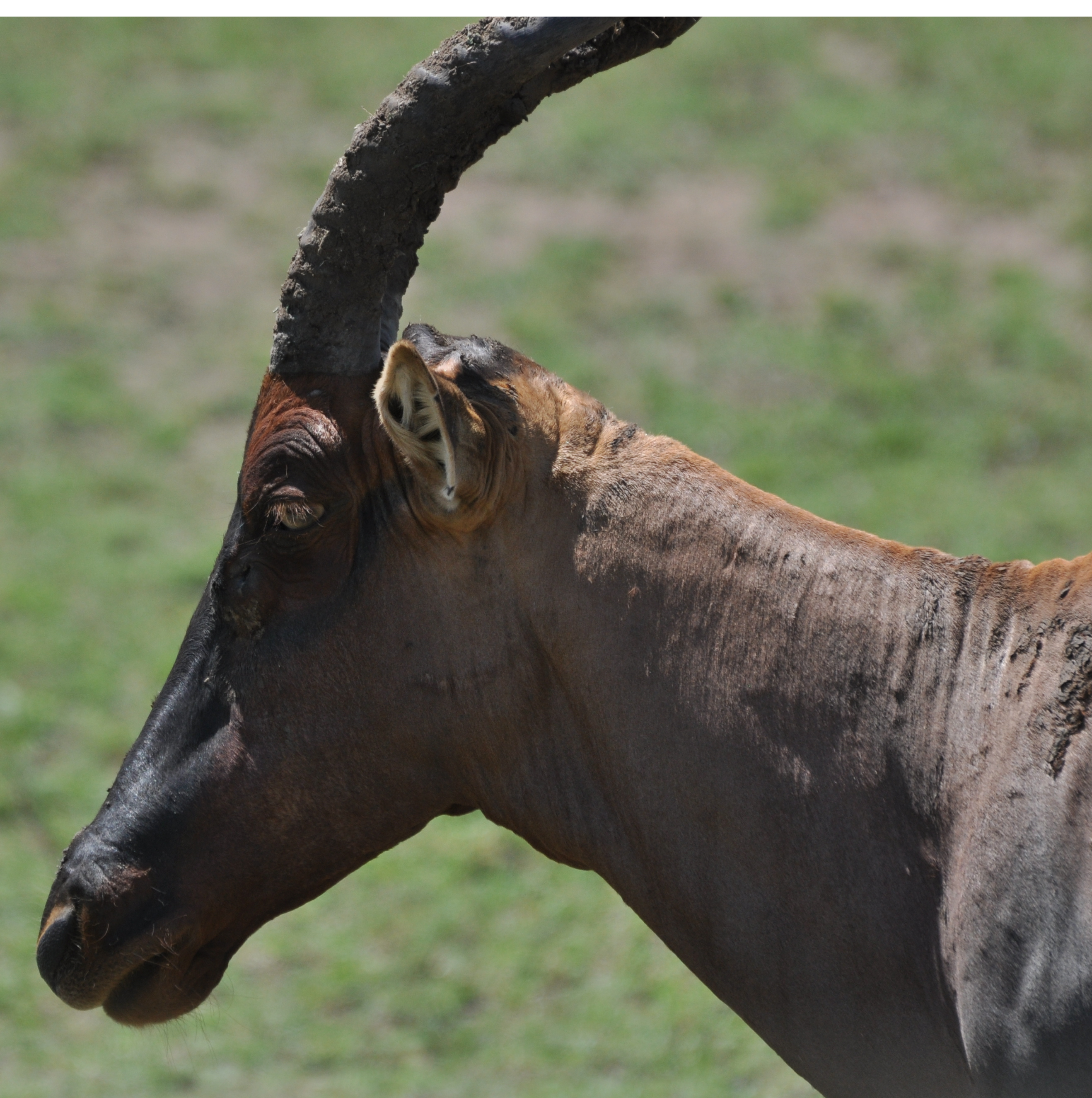 Topi in the northern Serengeti